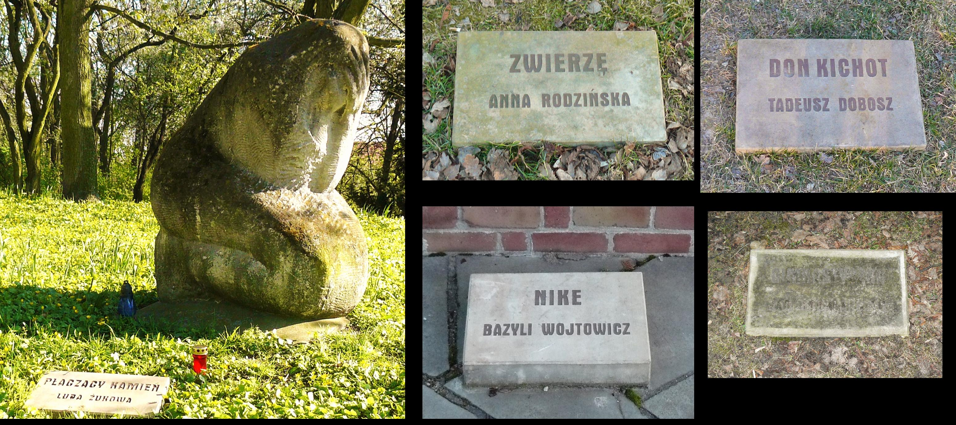 Plaques in Poznan (Cytadela Park).